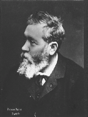 Photo of Antoine Vollon (photo has been cropped)